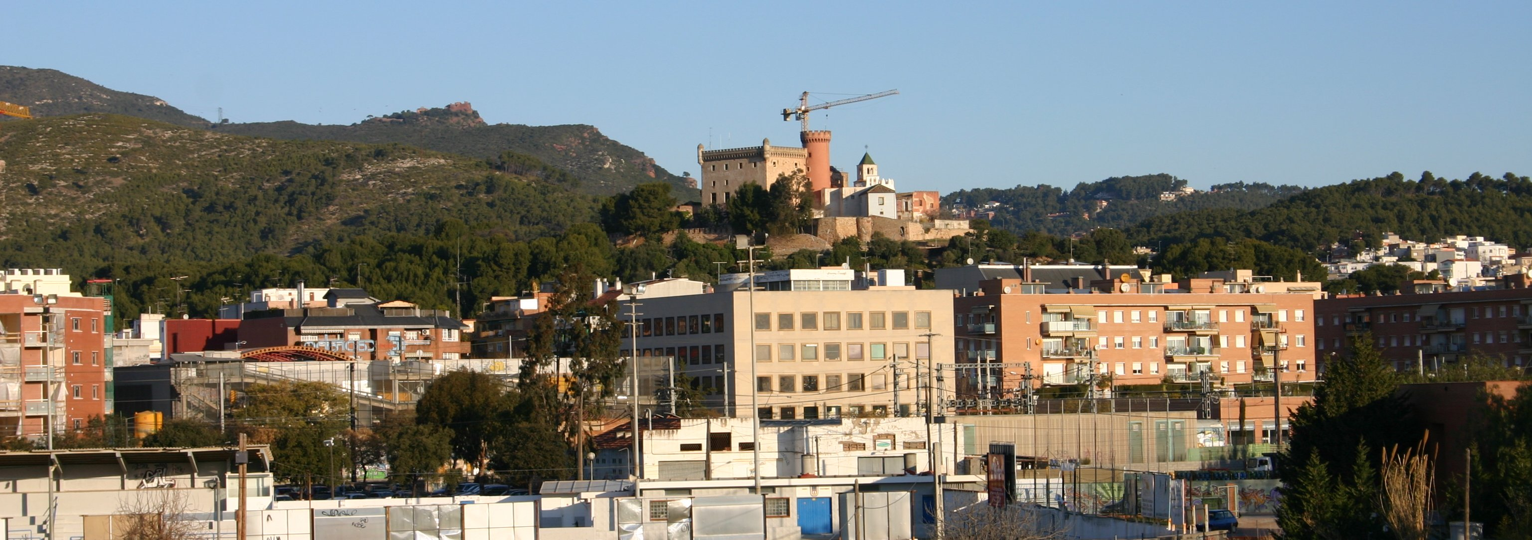 Castelldefels panoramic view, in the province of Barcelona, Catalonia. In the background, the Castle.